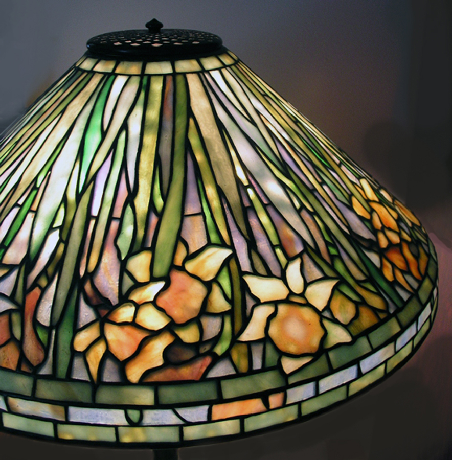 A very fine Tiffany "Daffodil" leaded glass table lamp (shade shown), designed by Clara Driscoll, Louis Comfort Tiffany & Co. head designer, Circa 1899-1920. (From a private collection, New York City.)